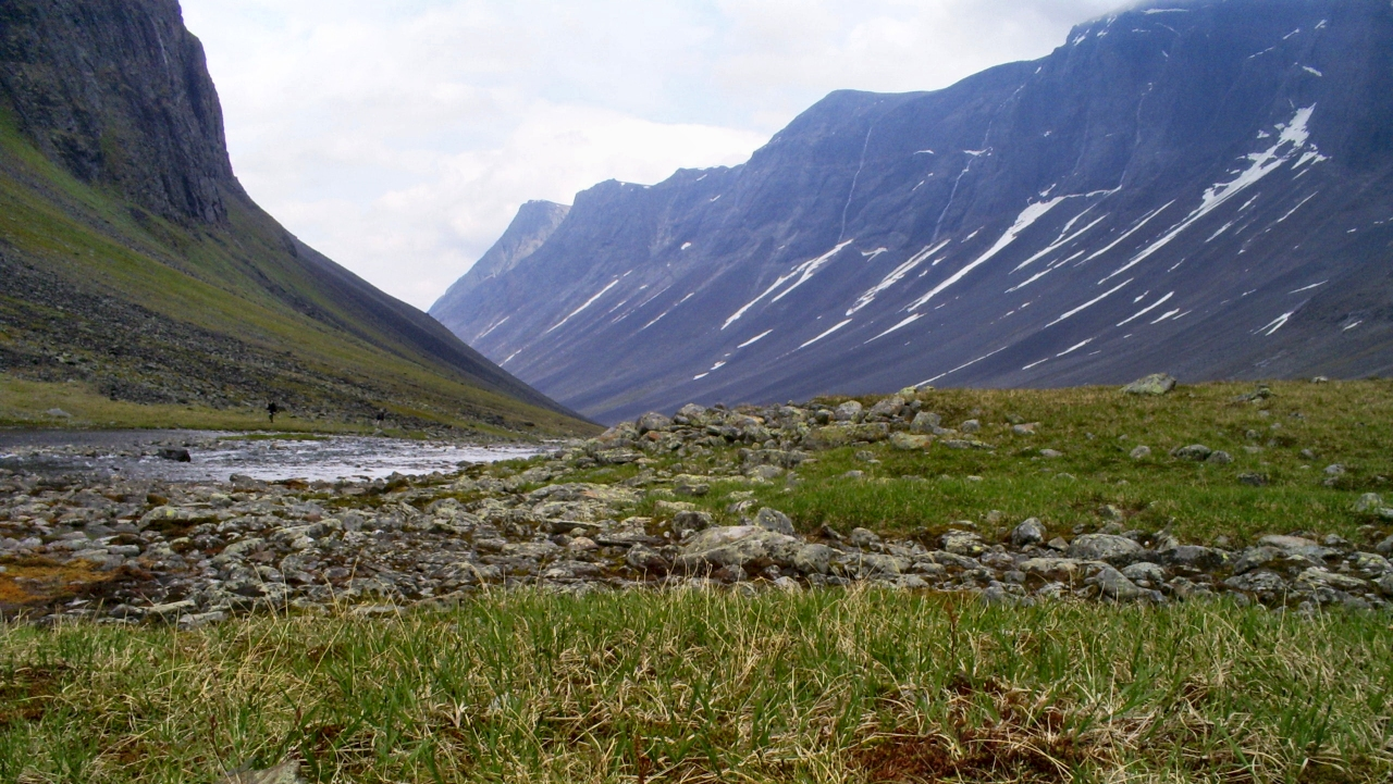 Stuor Räitavagge with surroundings, view eastward, taken from Nallostugorna.